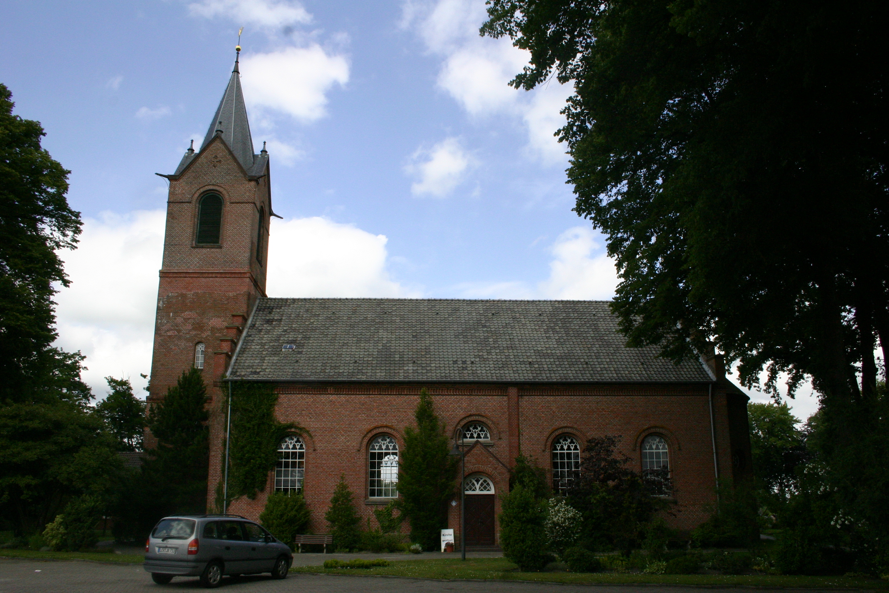 Historic church in Jheringsfehn, district of Leer, East Frisia, Germany